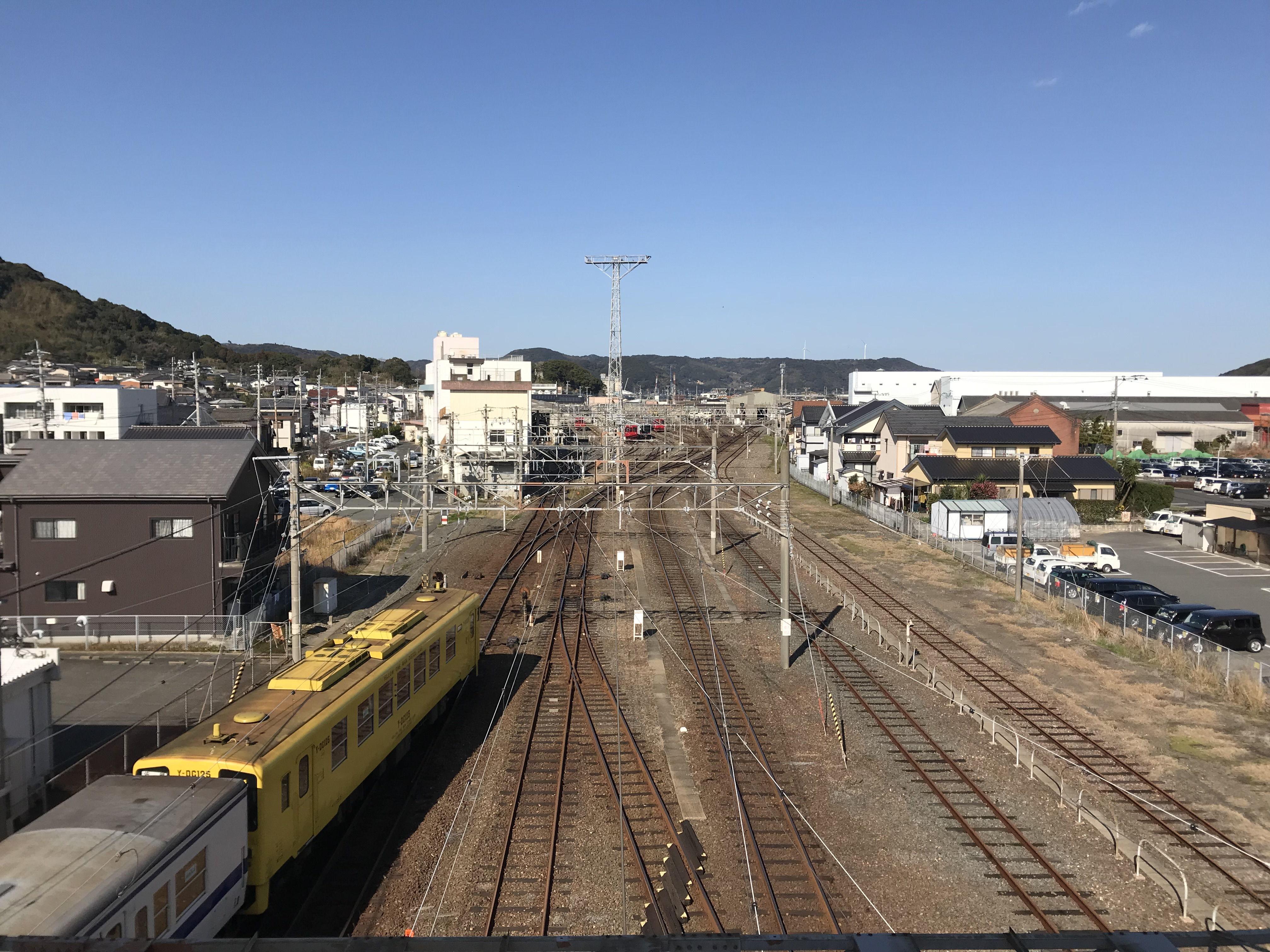 JR Kyushu Karatsu Rolling Stock Center viewed from the Rifure Bridge